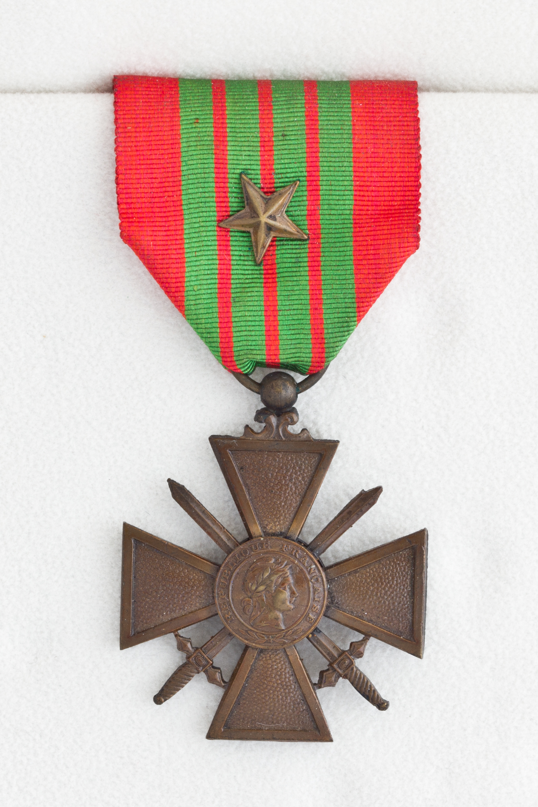 1939-1945 French War Cross, with a bronze star (mentioned in despatches at the regiment level).